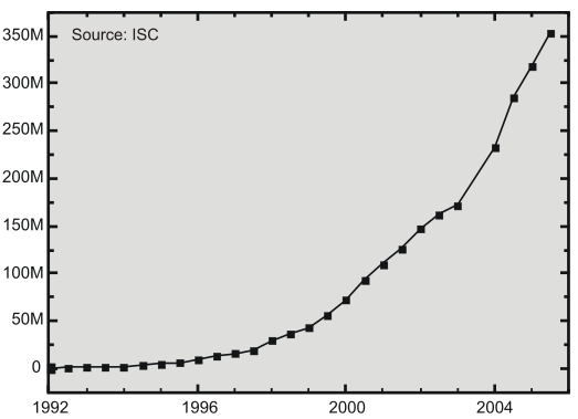 Number of internet hosts